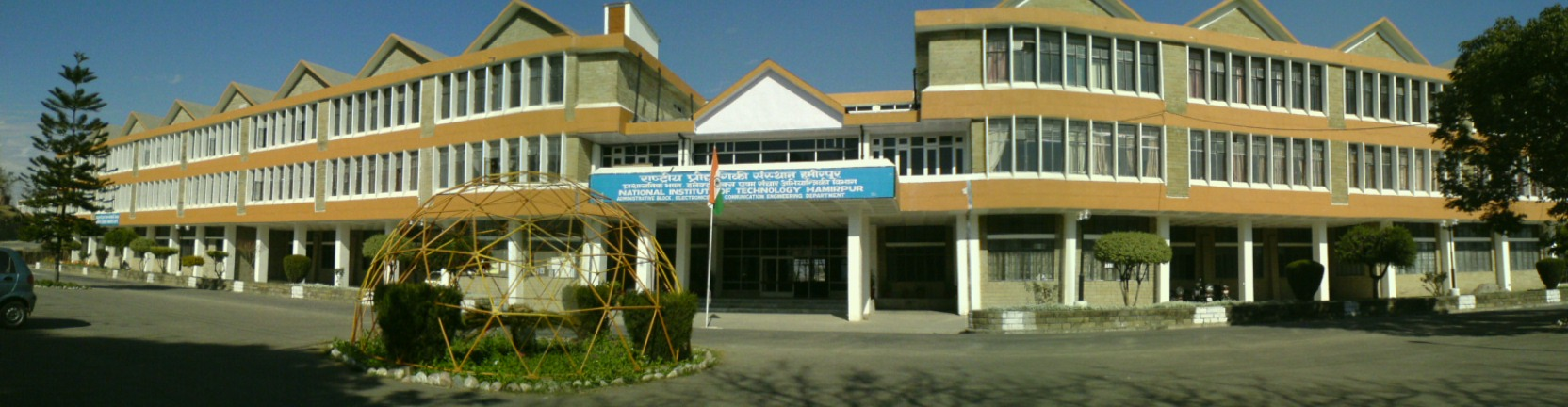 Panoramic view of the administrative block, NIT Hamirpur.